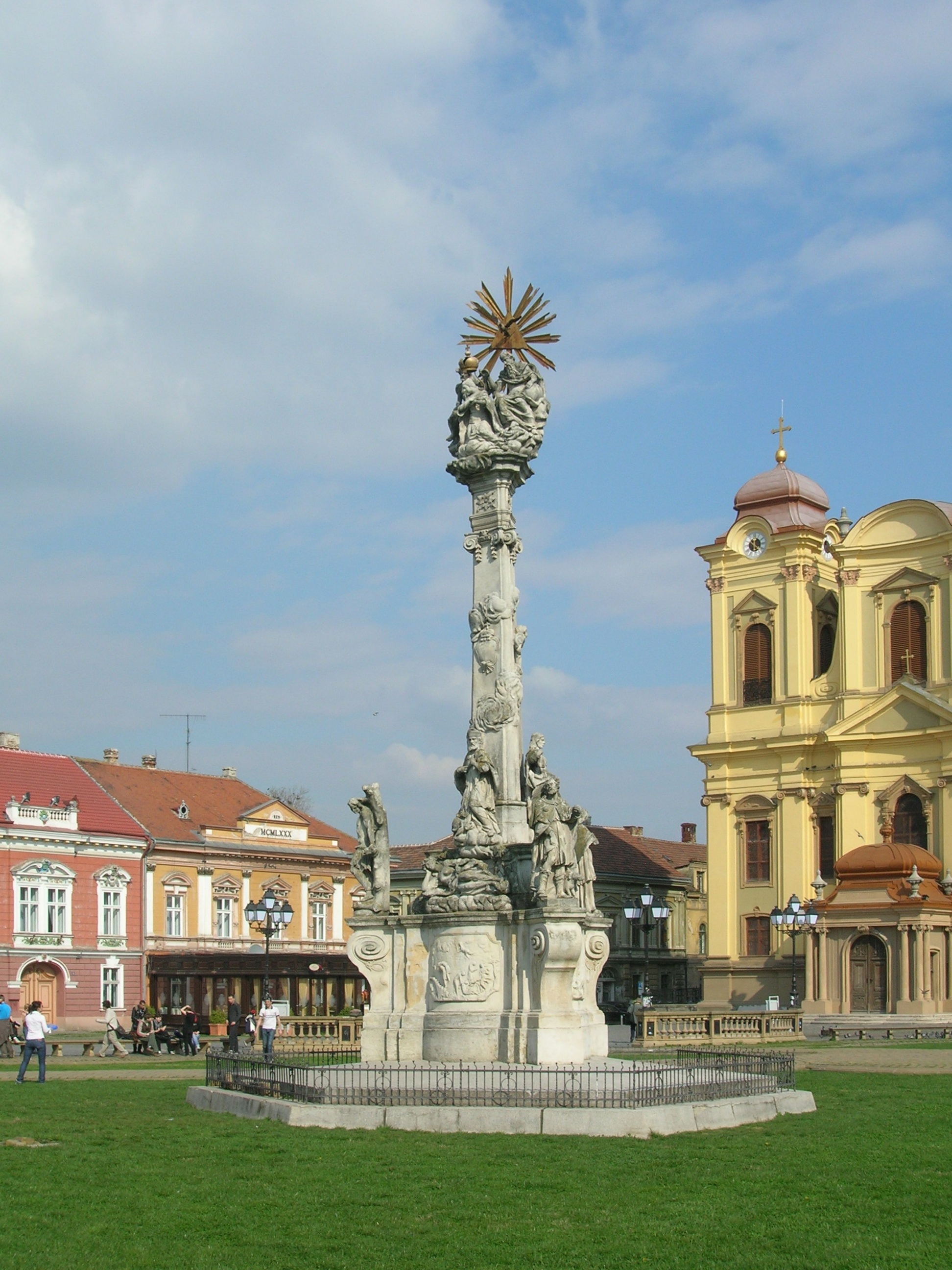 Votive figure near Roman Catholic Cathedral (The Dome) on Piaţa Unirii in Timişoara (Romania).